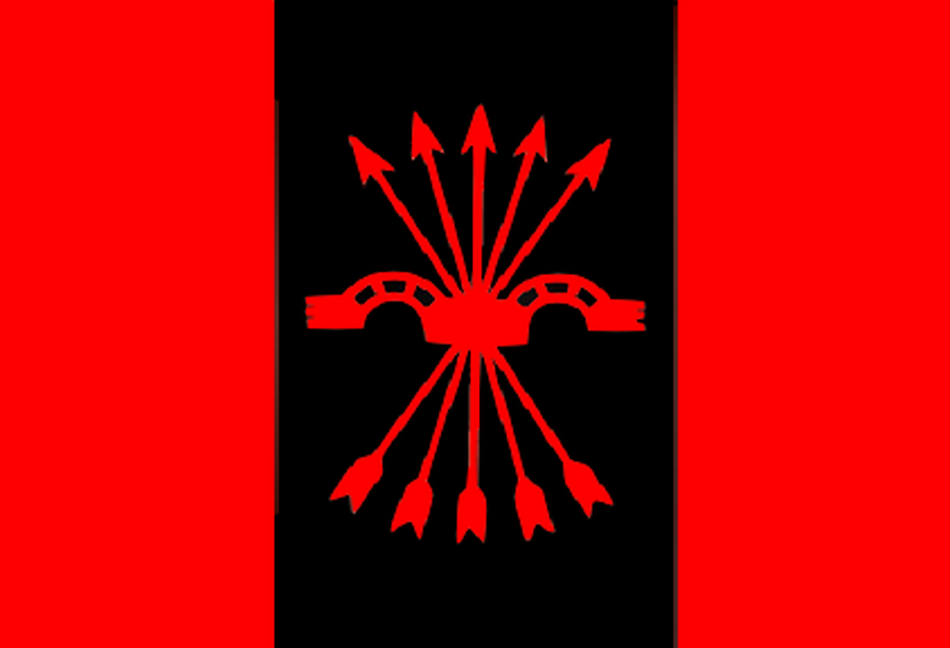 Flag of the Spanish Falange of the Assemblies of the National Syndicalist Offensive